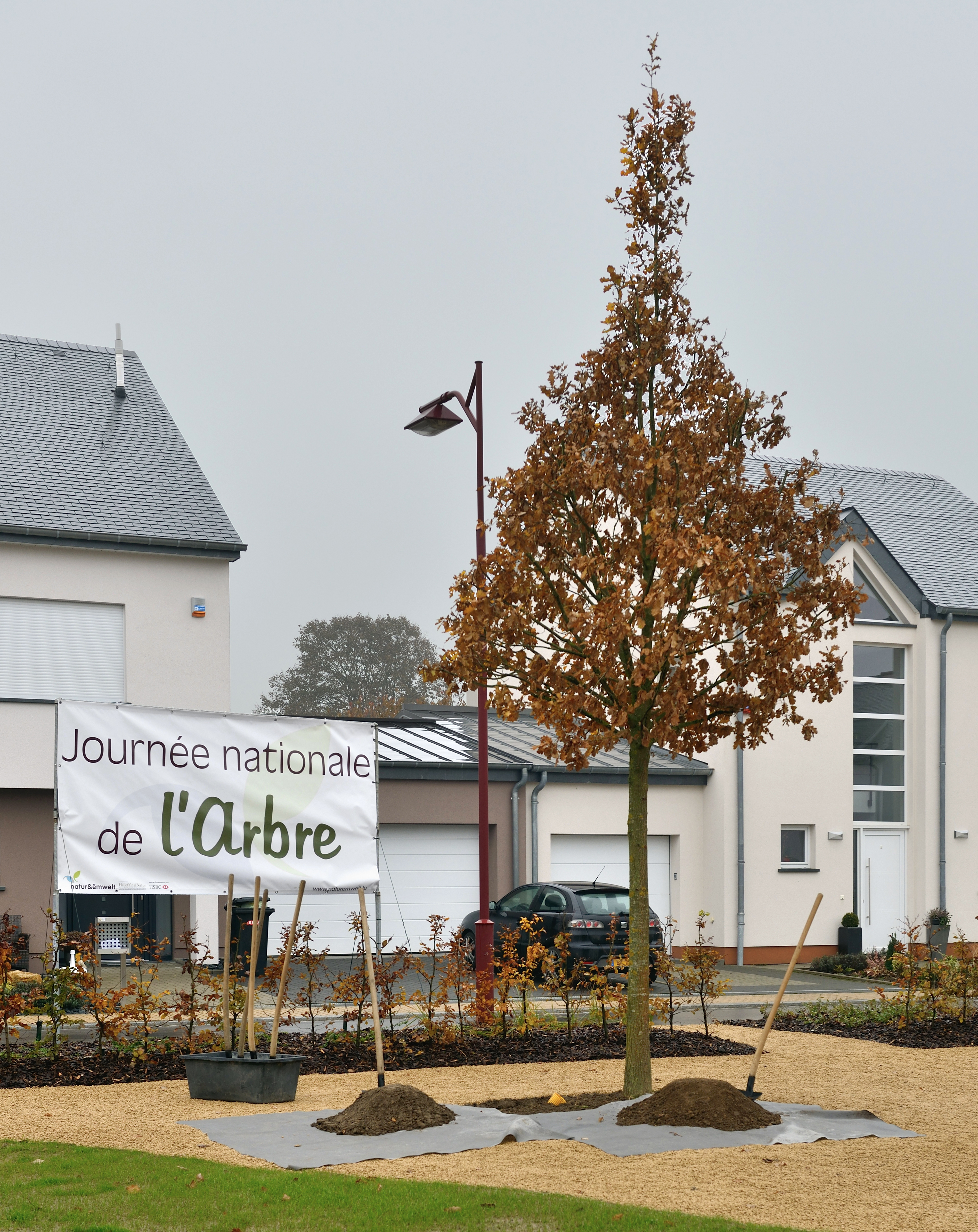 National Arbor Day in Luxembourg: official planting of an oak (Quercus robur) on November 10 2012 in Steinfort.